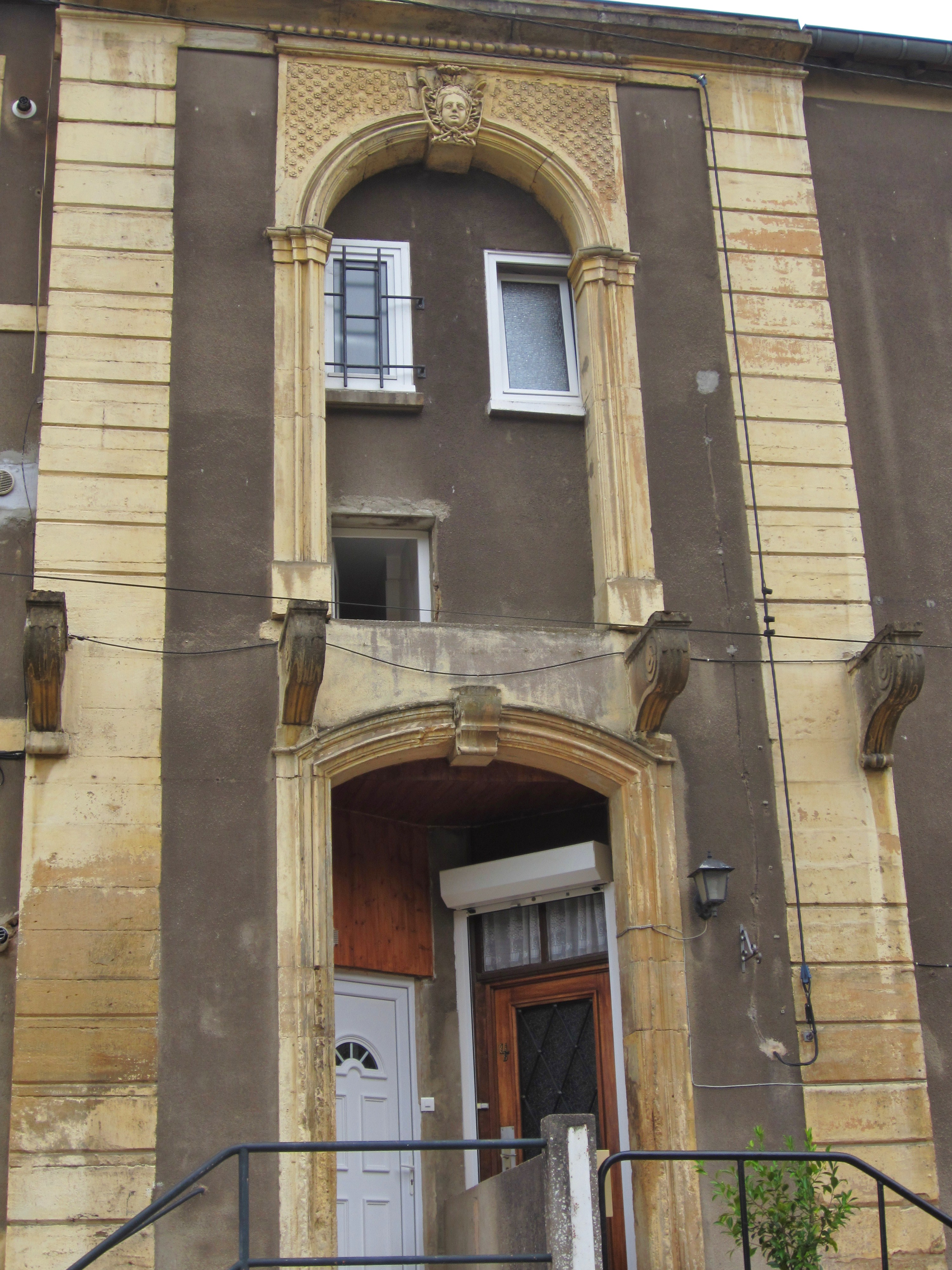 Description porte ancien chateau Moutiers 54 Date21 September 2011Sourcemon appareil photoAuthorAimelaimePermission (Reusing this file) porte ancien chateau Moutiers 54